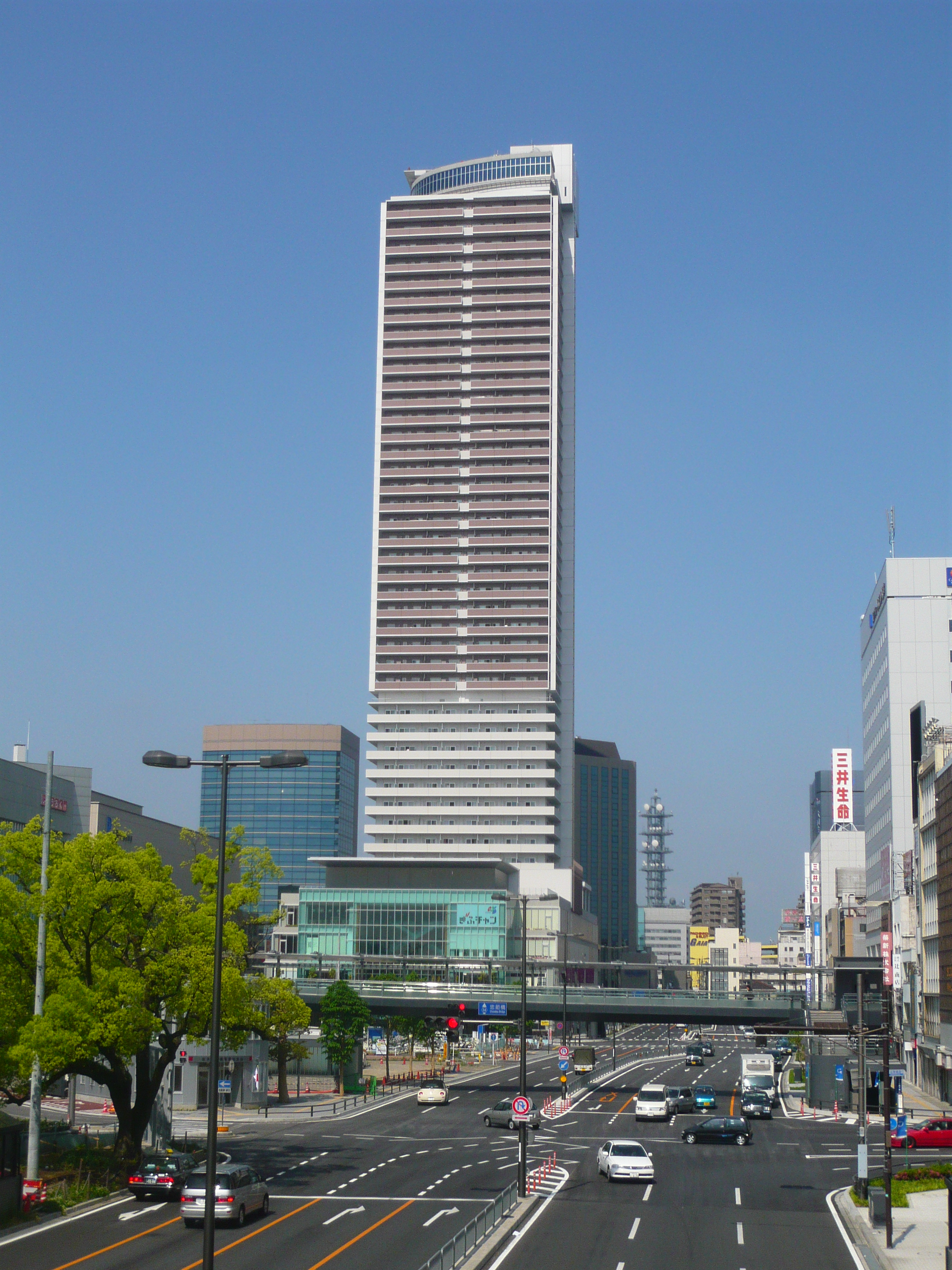 Gifu City Tower 43, Gifu, Gifu, Japan